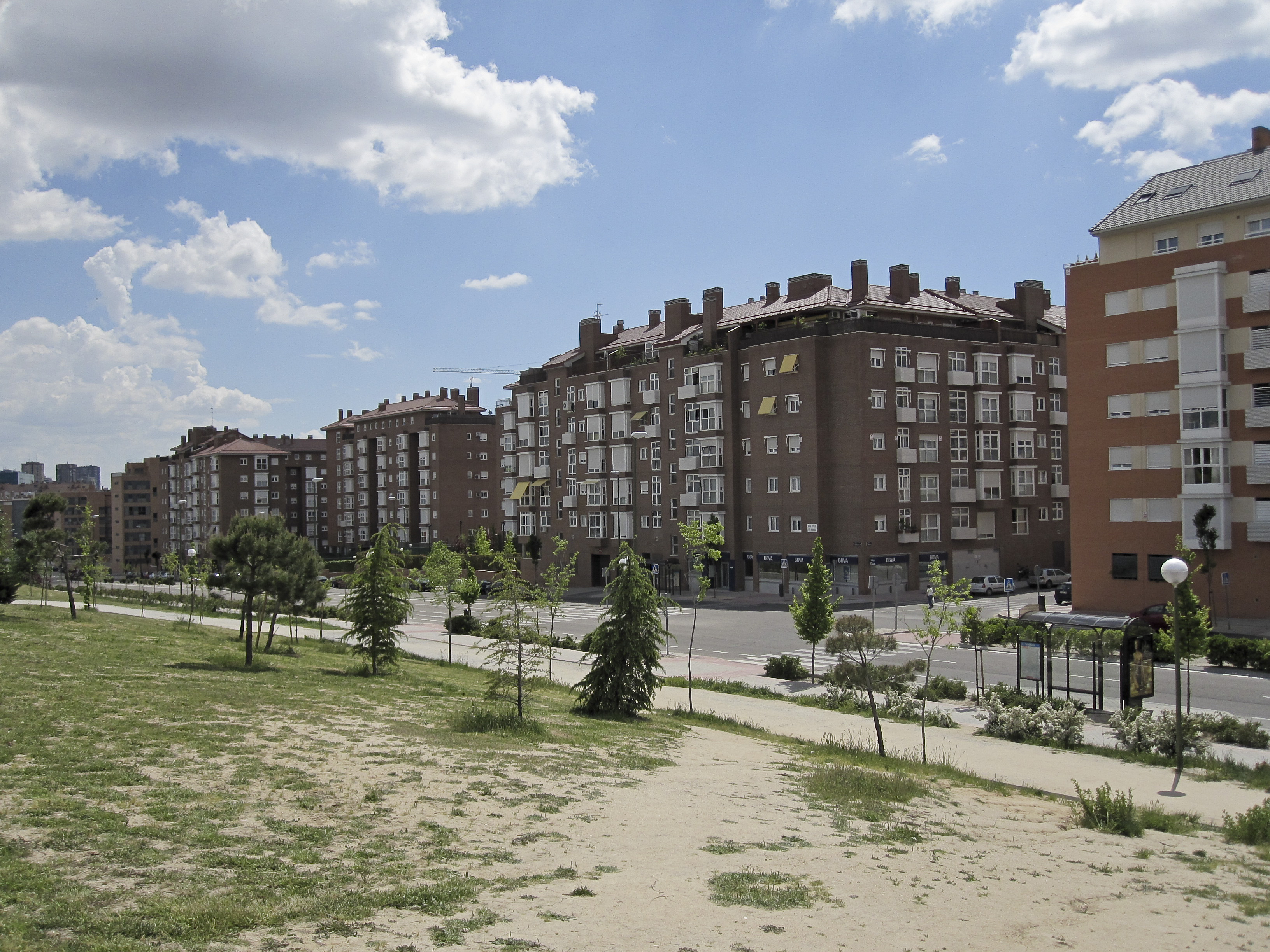 District "Las Tablas" in Fuencarral-El Pardo, Madrid. Spain. Santo Domingo de la Calzada.